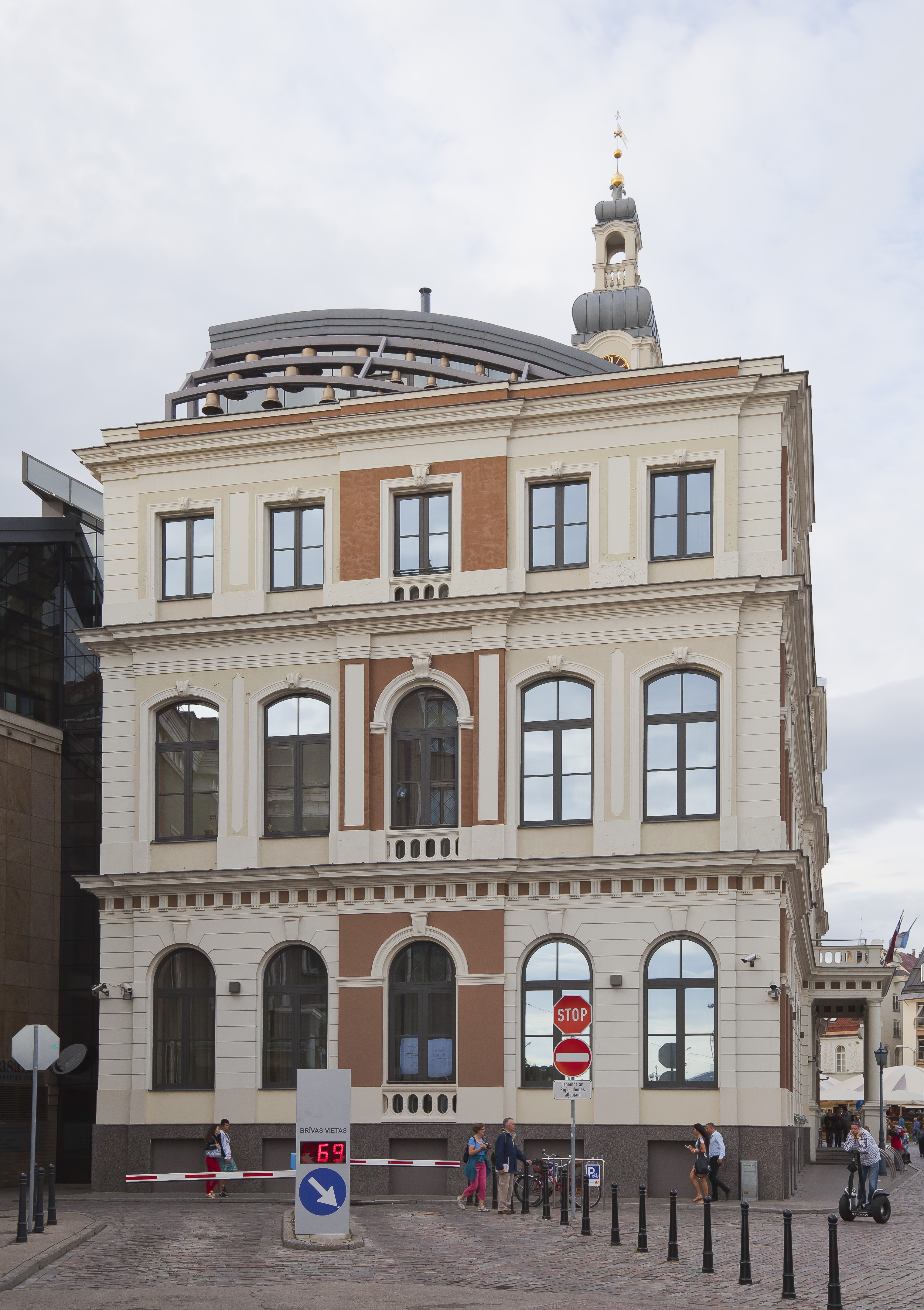 Riga Town Hall, Riga, Latvia